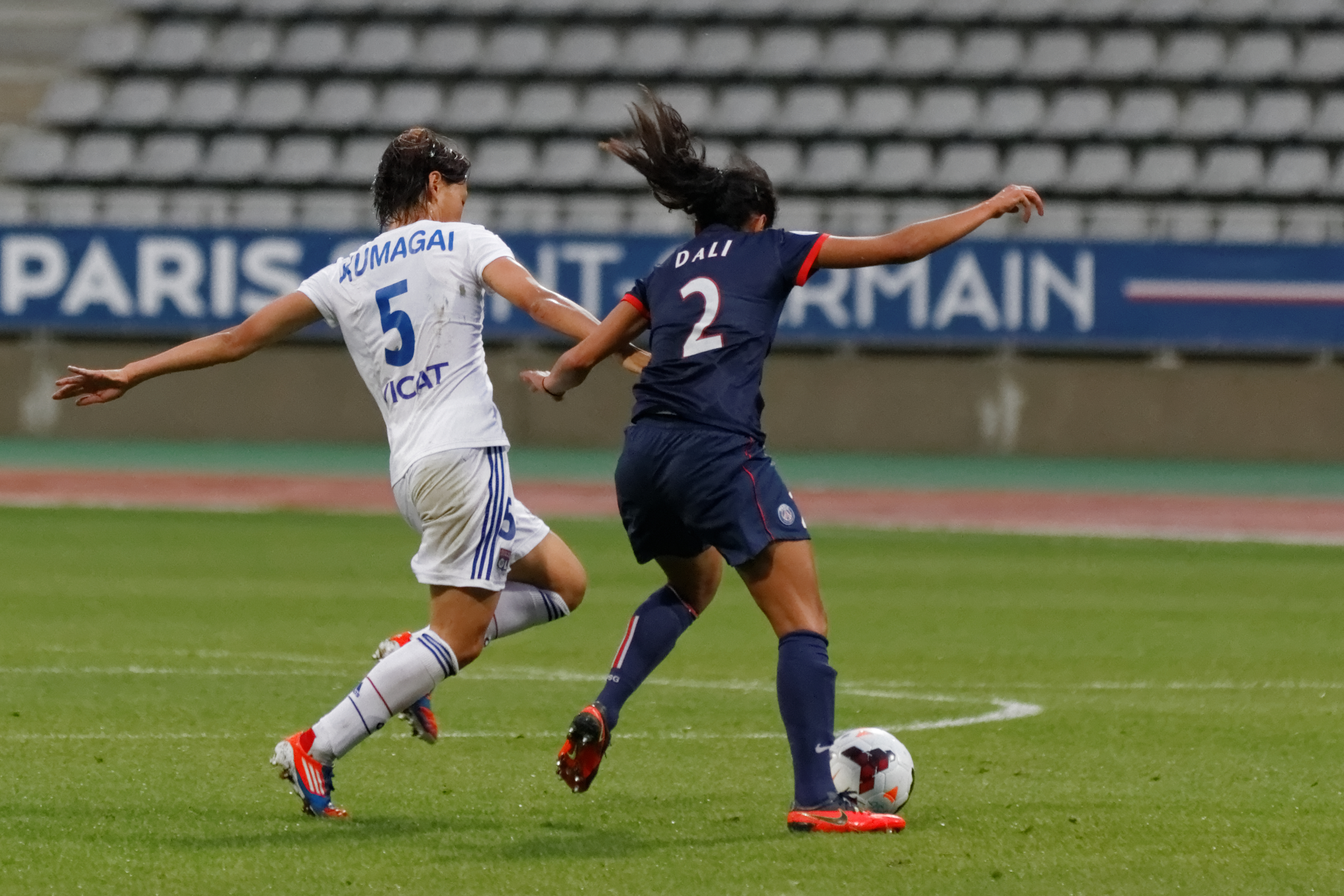 PSG-Lyon, September 29th, 2013.